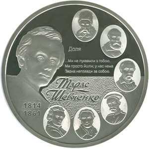 Reverse of the coin 200th Anniversary of T.H.Shevchenko's Birth